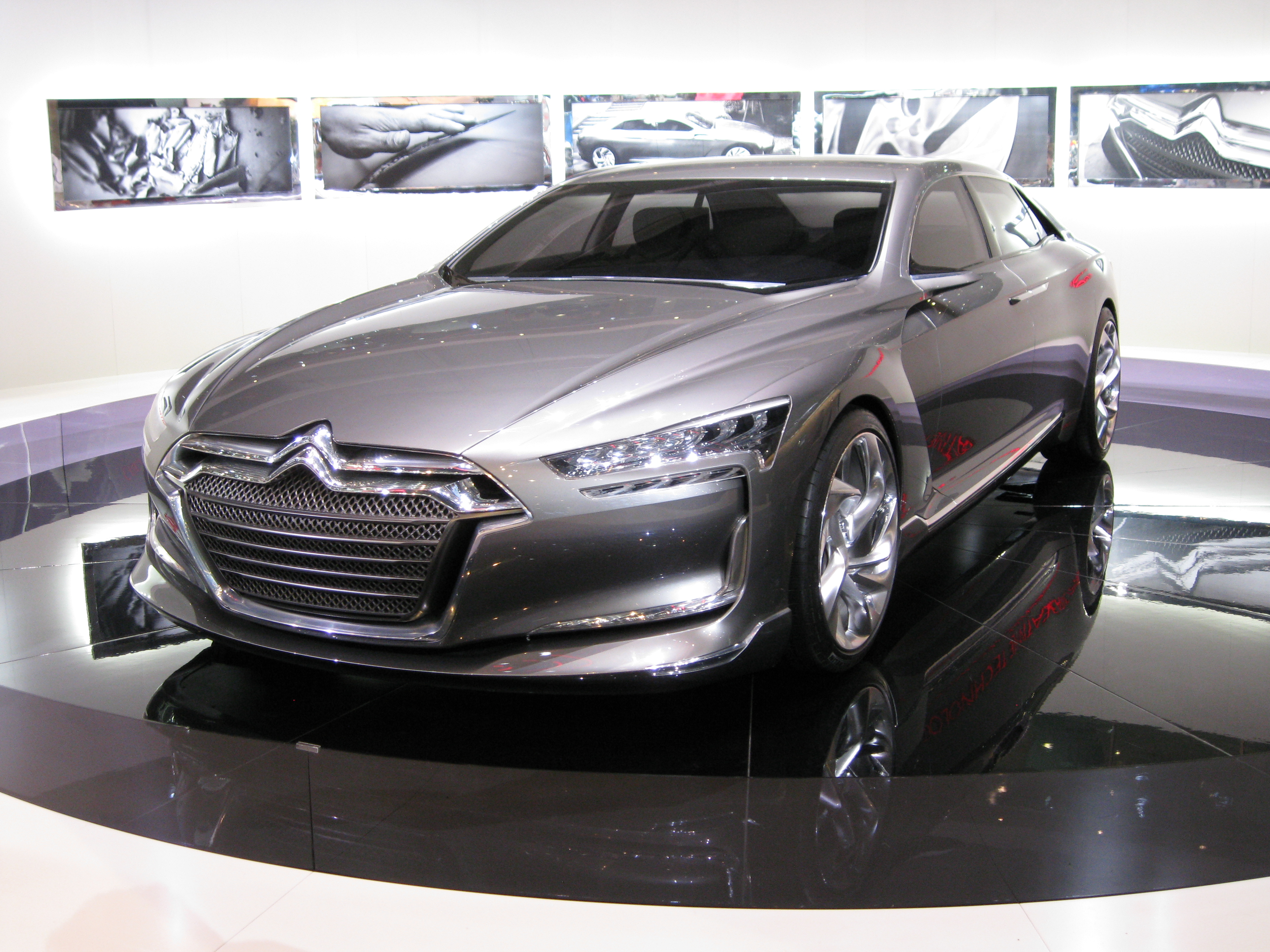 Geneva Motor Show 2011